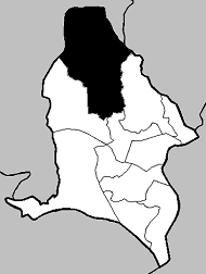 Location of São Brás parish in Amadora municipality. Map created by Brian Boru in December 2005.